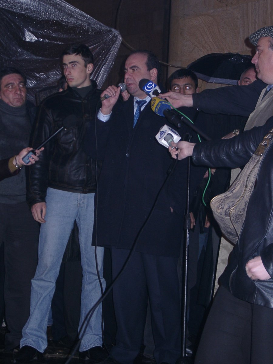 Tbilisi, Rose Revolution 2003. Zurab Zhvania, one of the oposition lider